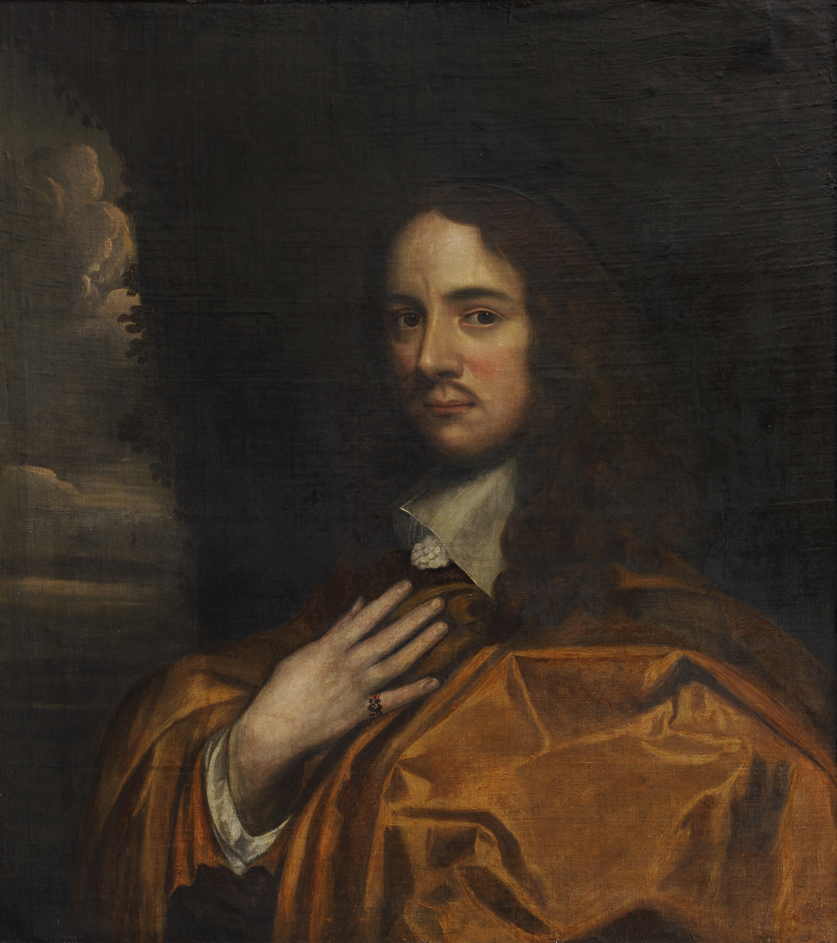 A 76 x 65 cm oil-on-canvas portrait painting of Andrew Marvell attributed to Godfrey Kneller held at Trinity College, Cambridge